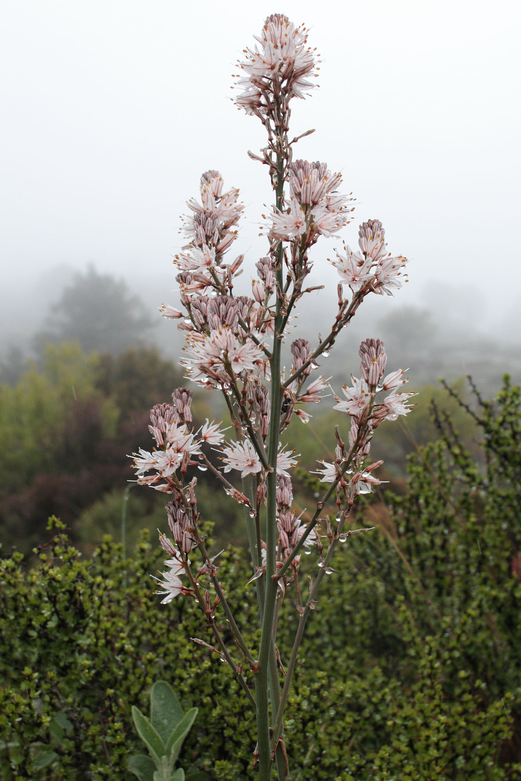 The asphodel, Omalos, Crete